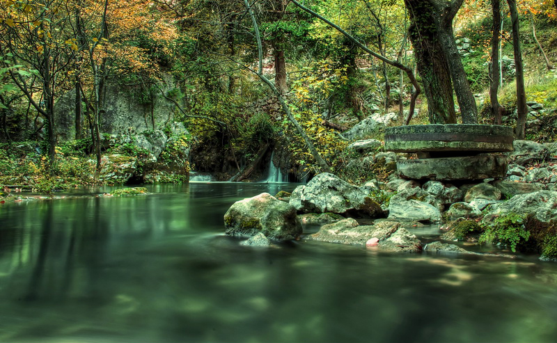 Peć mlini, river Tihaljina, Grude